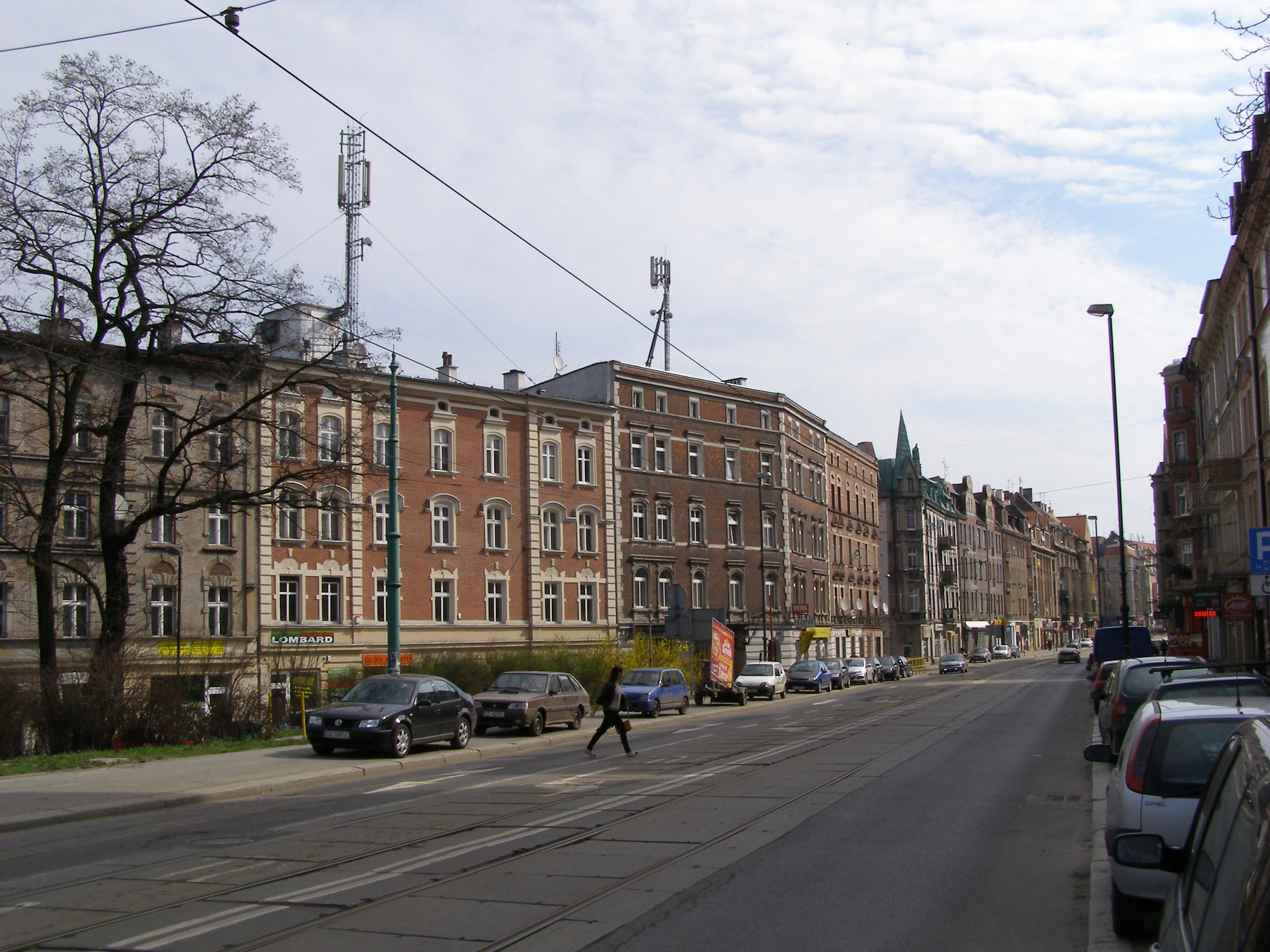 Zabrze - Wolności str.